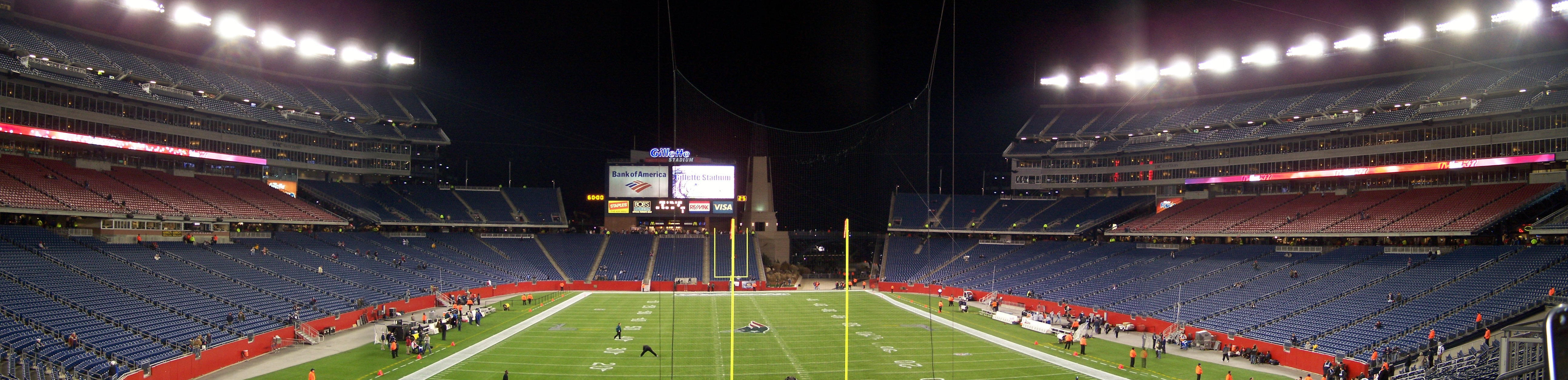 Gillette Stadium at night.